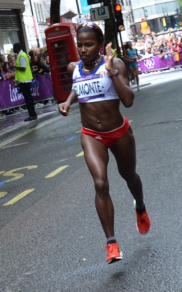 Dailín Belmonte (Cuba) in the marathon (w) at the Olympic Games 2012